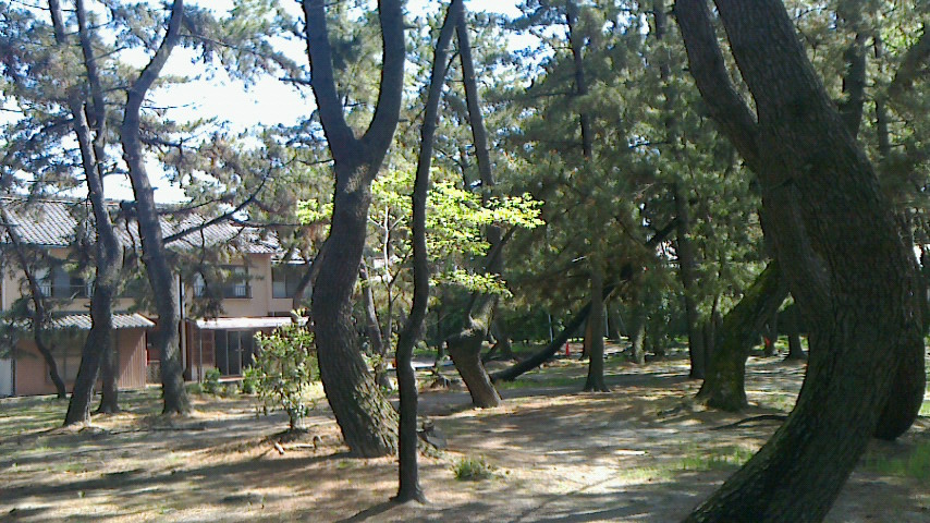 Trees in Shin Suma Beach (2016)